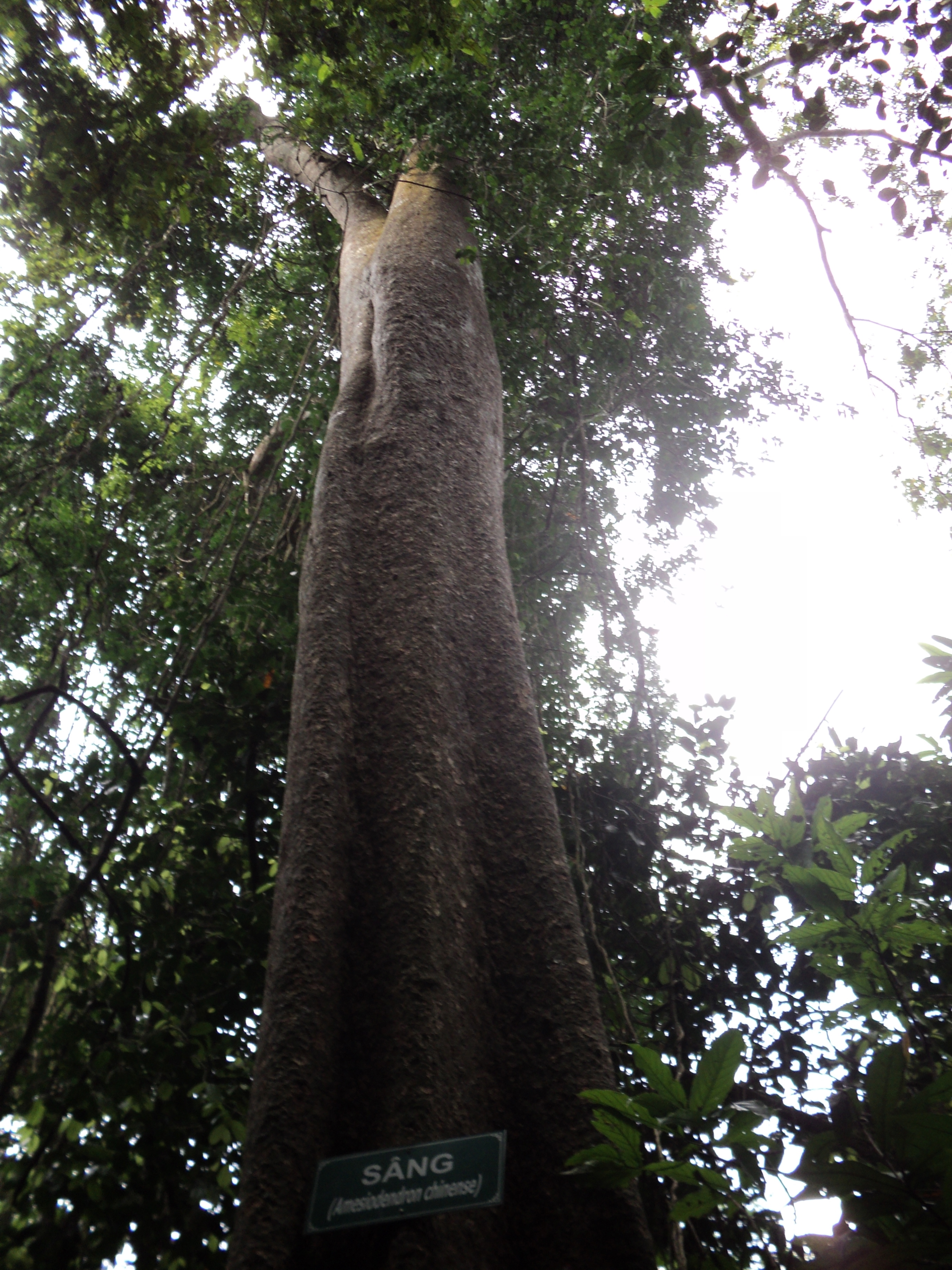 Amesiodendron chinenseTiếng Việt: Trường mật / Sâng